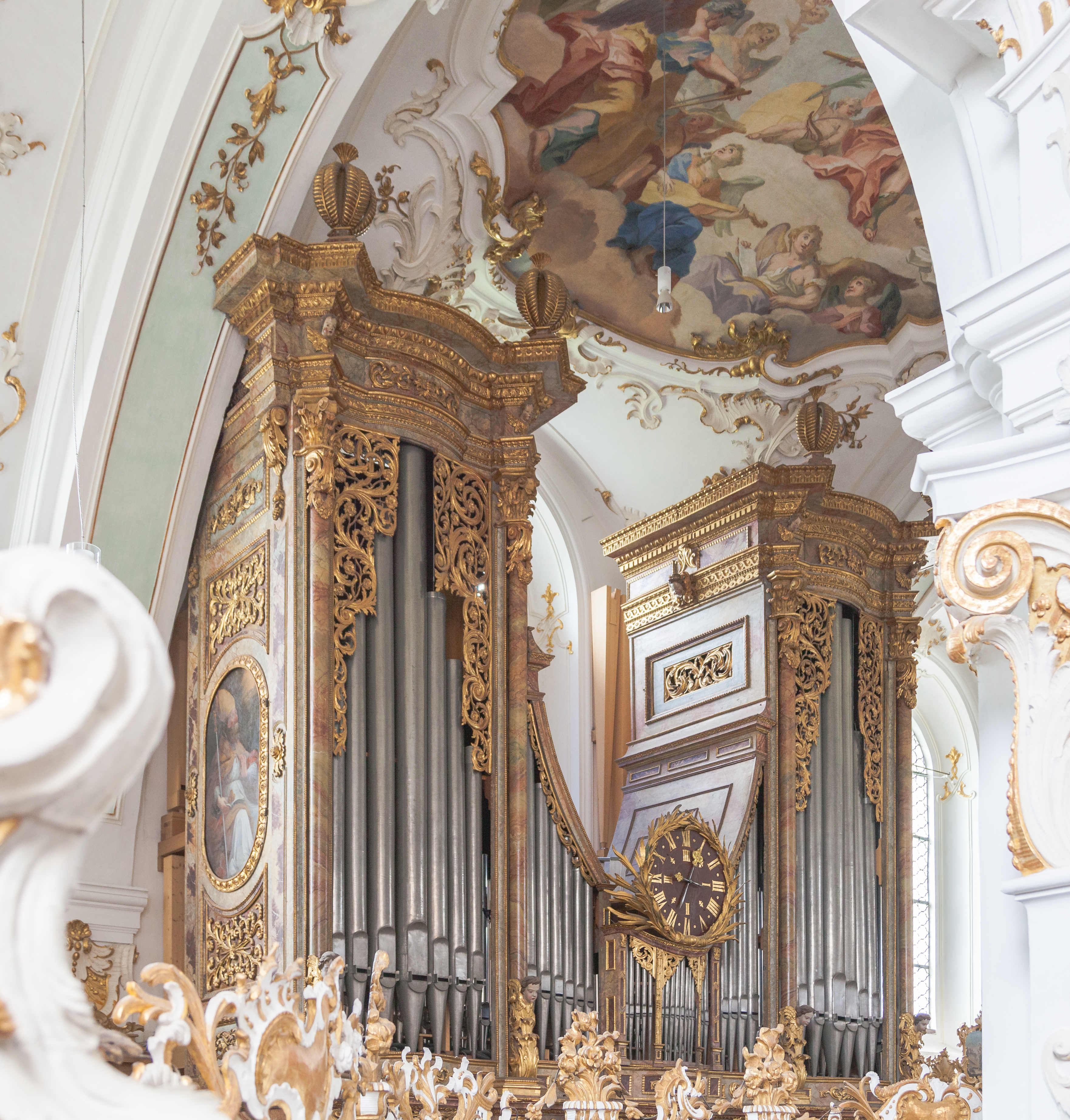 Monastery of Andechs, Germany